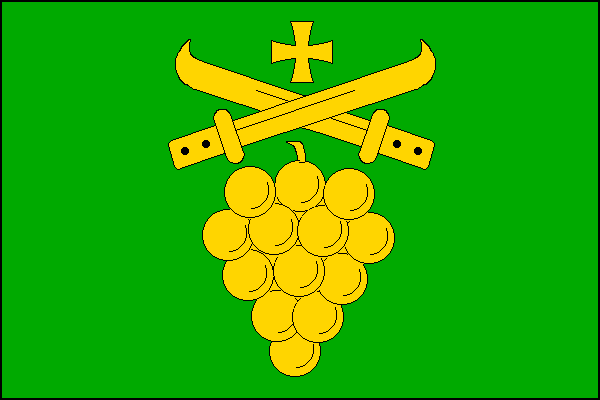 Municipal flag of Sobotovice village, Brno-Country District, Czech Republic.